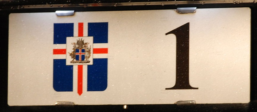 Plate of the President of the Icelandic State